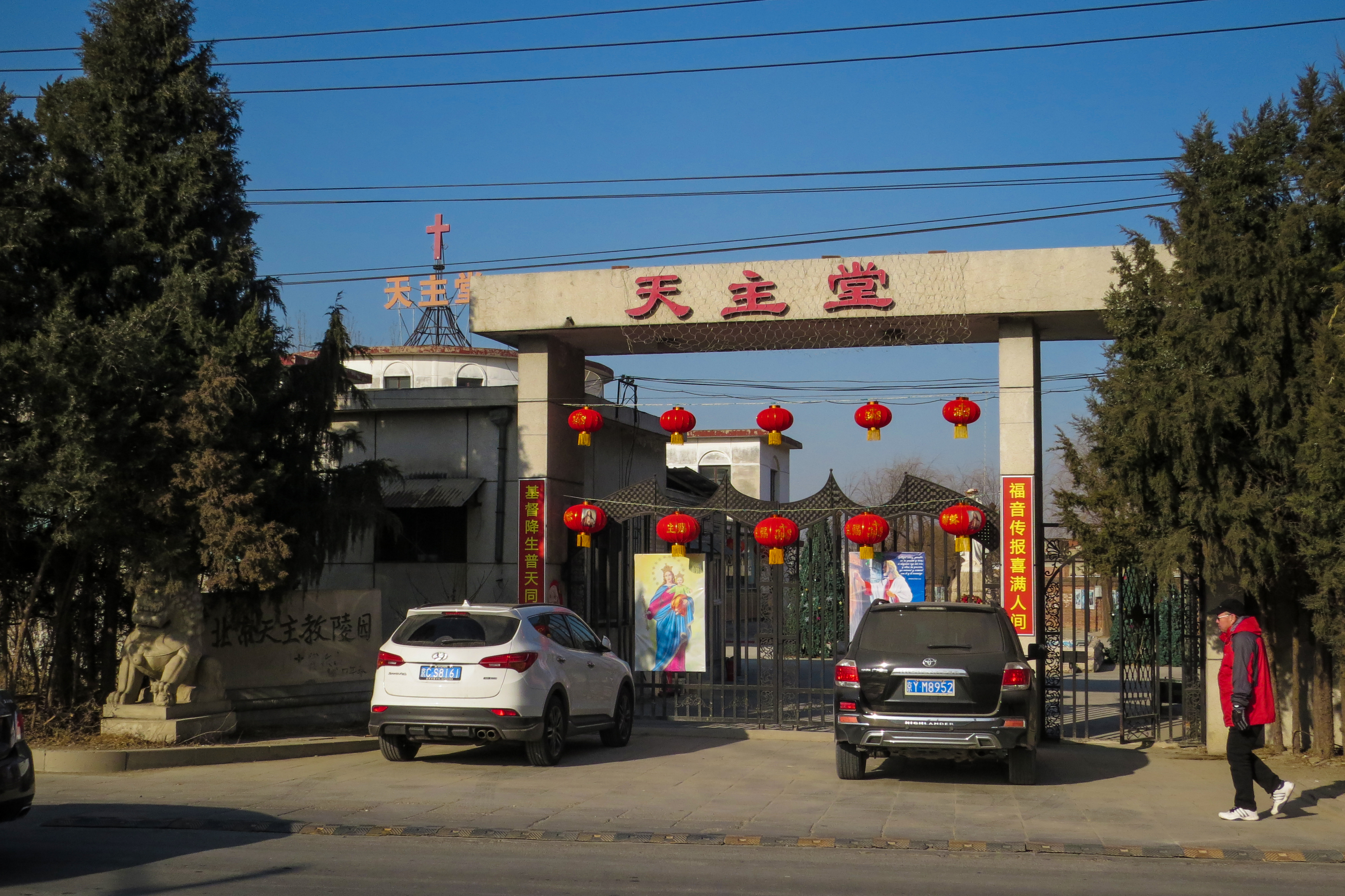 Also with Beijing Catholic Cemetery.